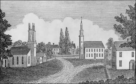 View of the center of Bethlehem (Bethlehem, Connecticut) by John Warner Barber (1798-1885) Barber's work is "the earliest known view of Bethlehem," according to a Web page titled "Visual Evidence: Drawing 1: View of the center of Bethlehem" at the National Park Service Web site pages for the Joseph Bellamy House in Bethlehem